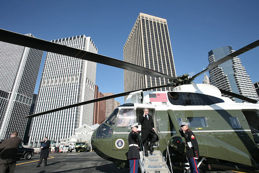 George W. Bush on Marine One at Downtown Manhattan Heliport on Jan. 31, 2007. White House photo by Paul Morse.